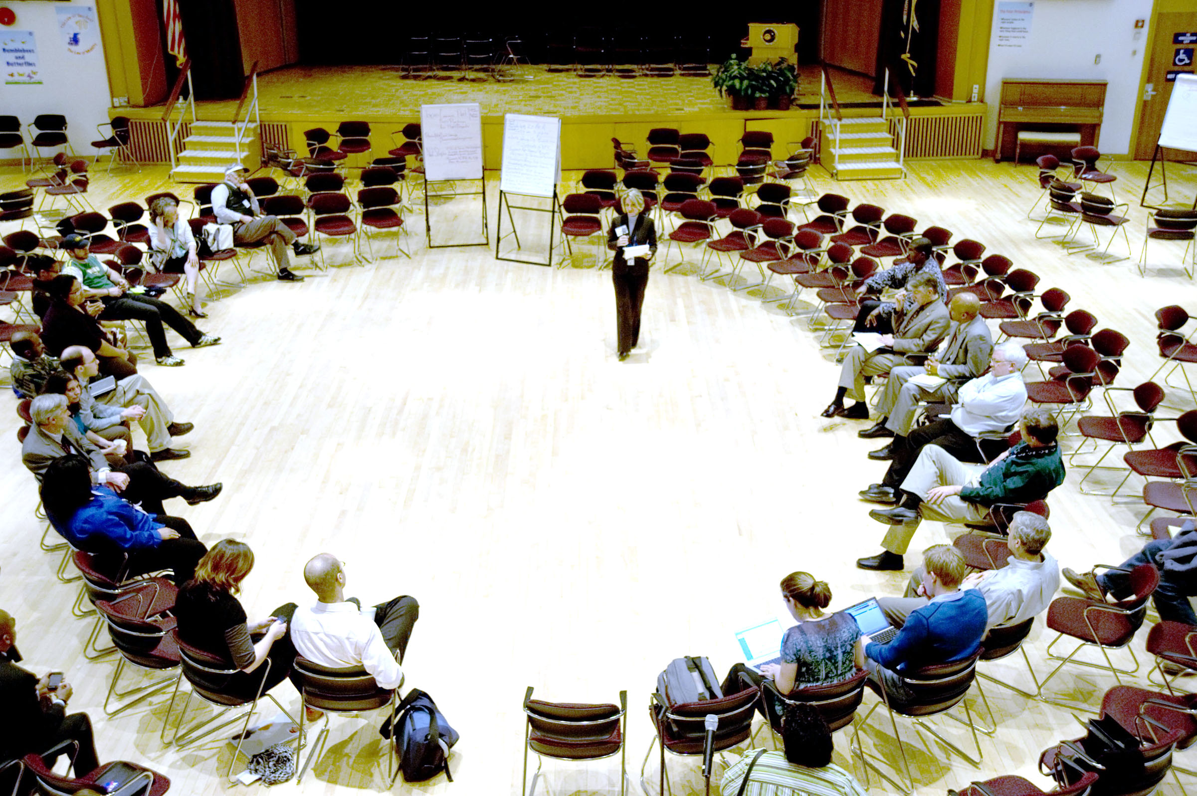 “Open Space 2 Innovate” was a Goddard wide forum where employees were encouraged to think innovatively and collaborate across boundaries to address our mission, business and technical challenges. Wednesday, March 17th, 2010